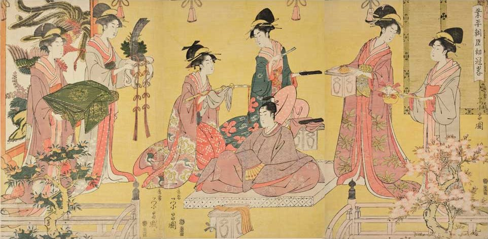 Minister Narihira’s Coming of Age by Chokosai Eisho, Japan, Edo period (1615–1868), c. 1790s. Woodblock print; ink and color on paper, Honolulu Museum of Art, acession 22064a-c